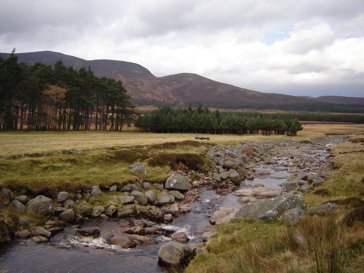 Allt Darrarie, looking north from next to the carpark at Spittal of Glenmuick, at the start of the walk around Loch Muick. Camera location is 56.953 degrees north, 3.136 degrees west.